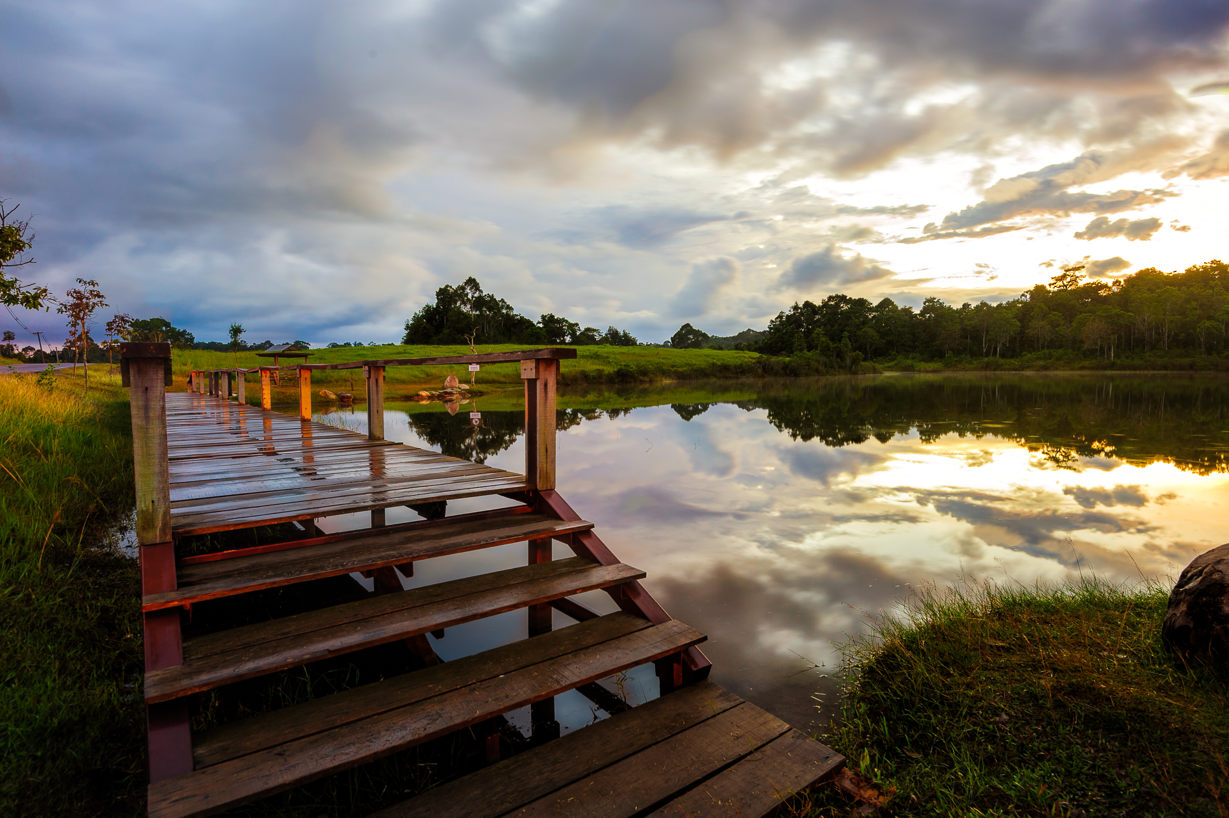 Sai Son Reservoir, Khao Yai National Park, Nakhon Nayok Province